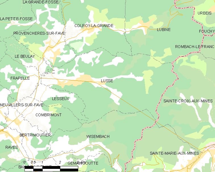 Map of French municipality Lusse